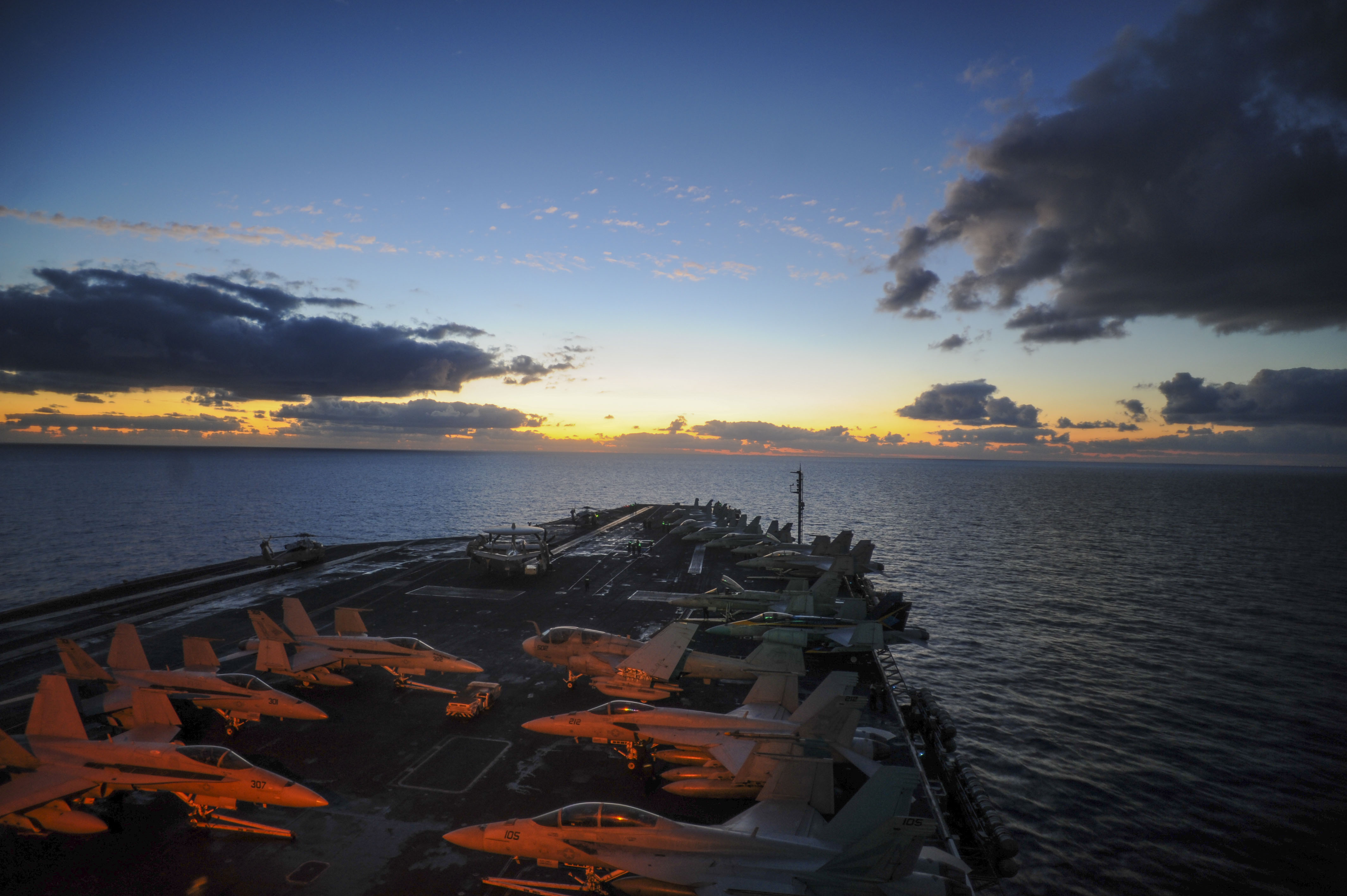 131022-N-ZG290-021 MEDITERRANEAN SEA (Oct. 22, 2013) The aircraft carrier USS Nimitz (CVN 68) transits the Mediterranean Sea. Nimitz is deployed supporting maritime security operations and theater security cooperation efforts in the U.S. 6th Fleet area of responsibility. (U.S. Navy photo by Mass Communication Specialist 2nd Class Devin Wray/Released)